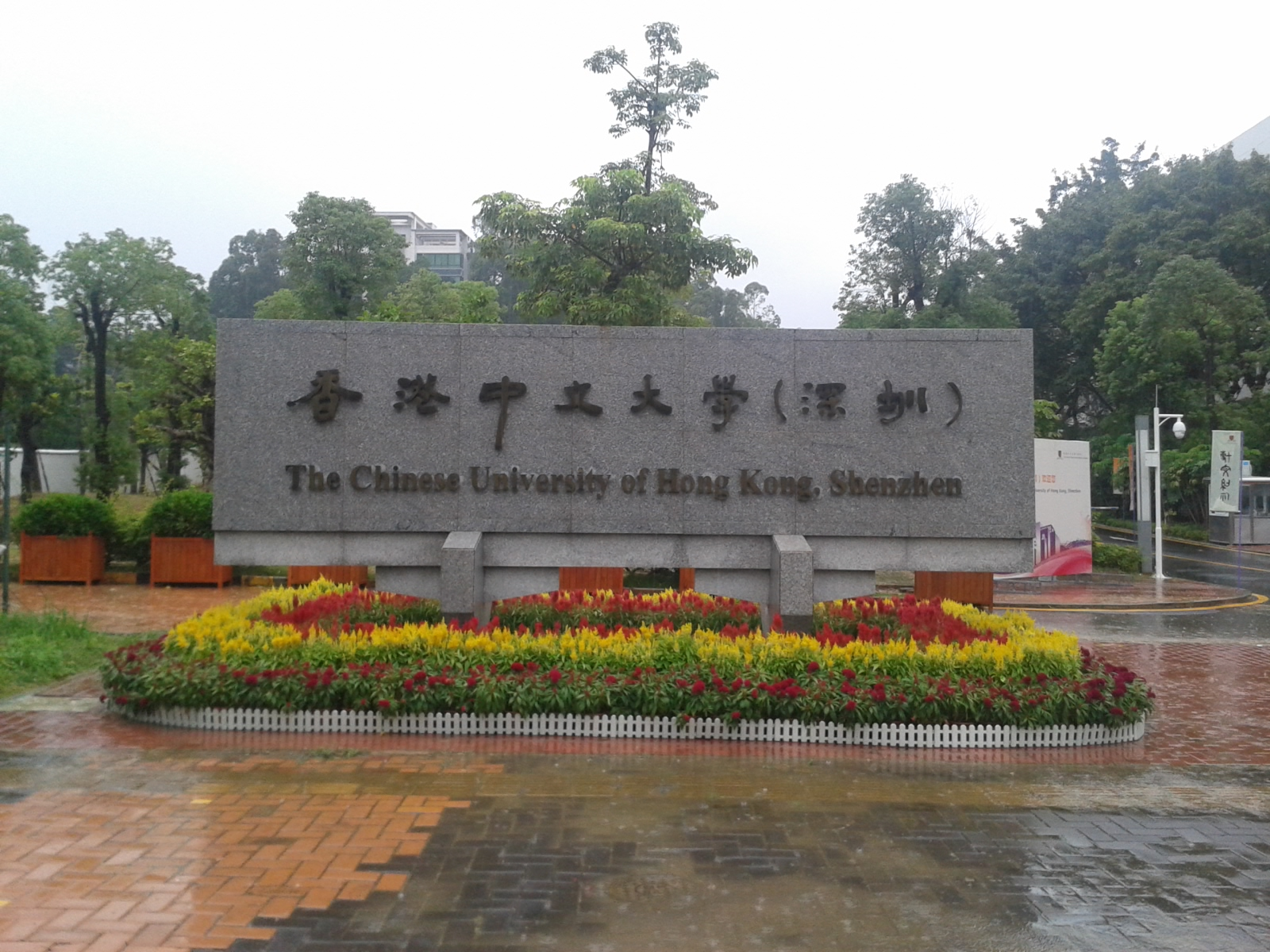 The Chinese University of Hong Kong, Shenzhen